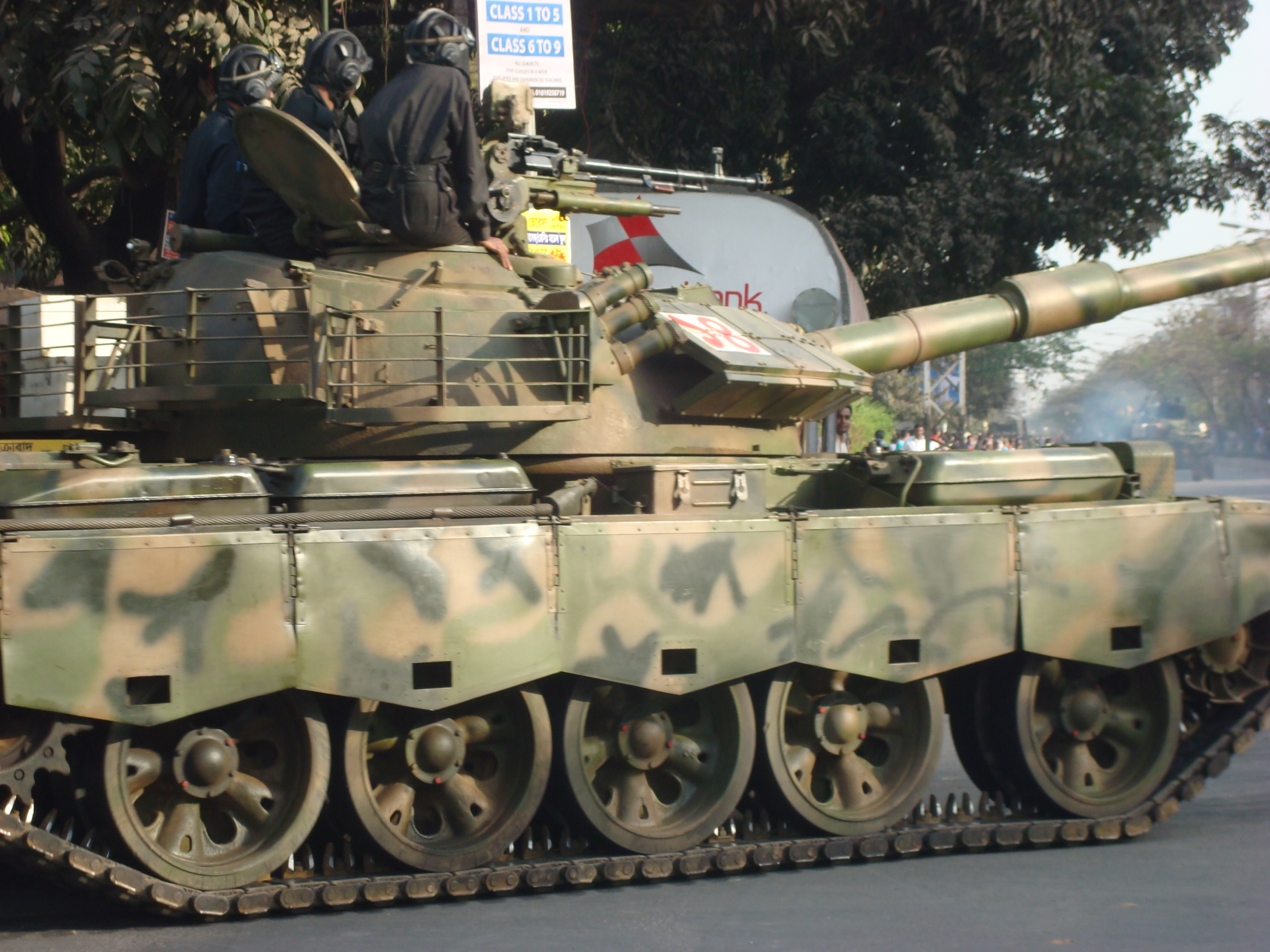 An army tank pointing towards the BDR headquarters at Pilkhana from Satmasjid Road near Abahani (beside Star Kabab Restaurant) ground on 26 February.